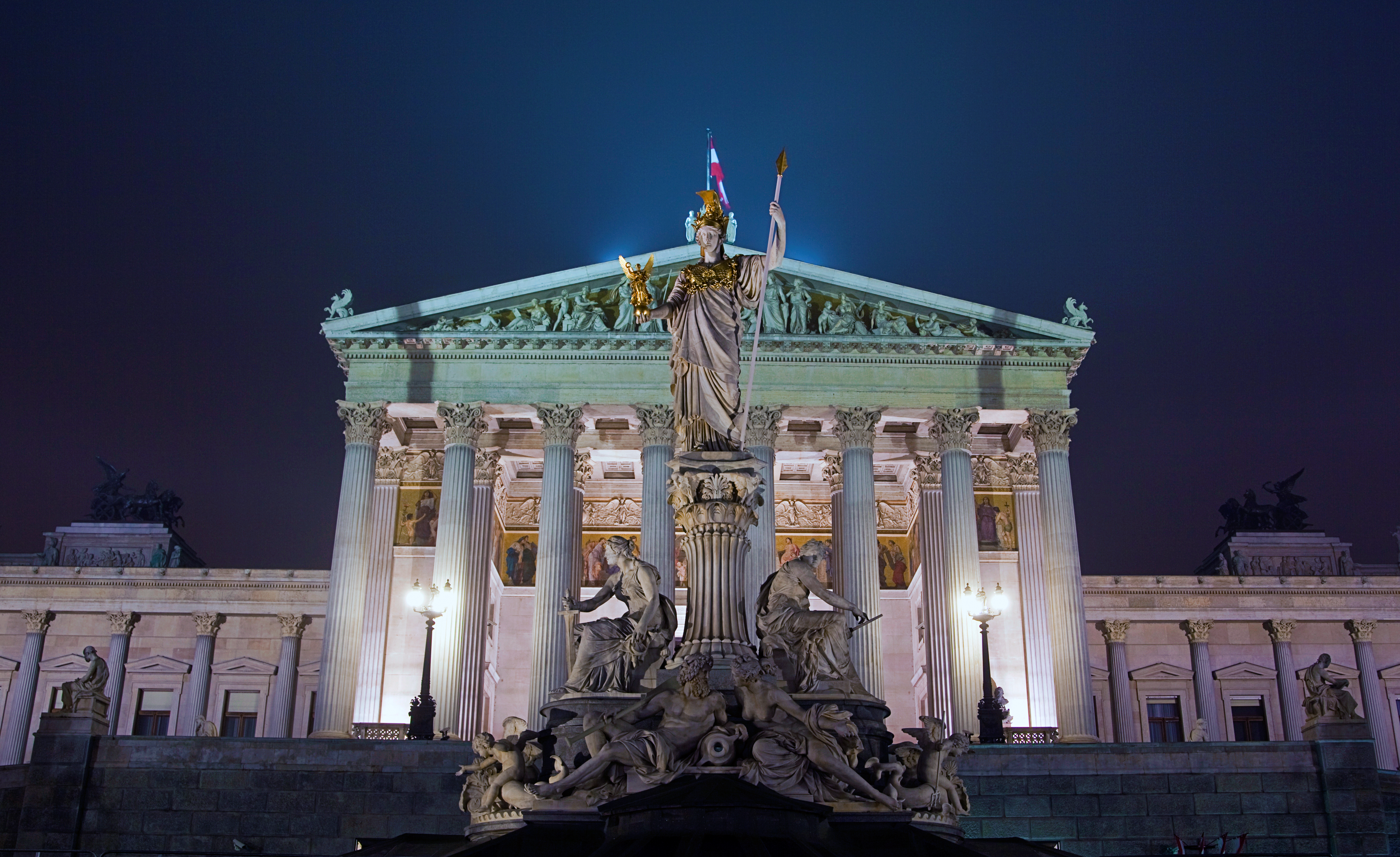 Austria, Vienna, Austrian Parliament Building